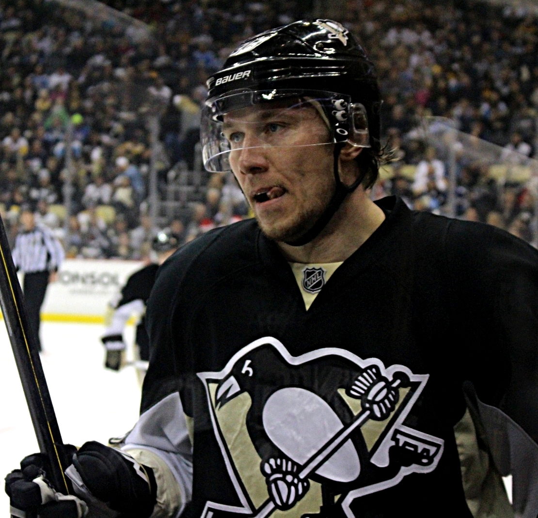 Pittsburgh Penguins forward Jussi Jokinen skating against the Calgary Flames, December 21, 2013 at Consol Energy Center in Pittsburgh, PA.